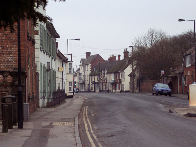 West Street, Wilton